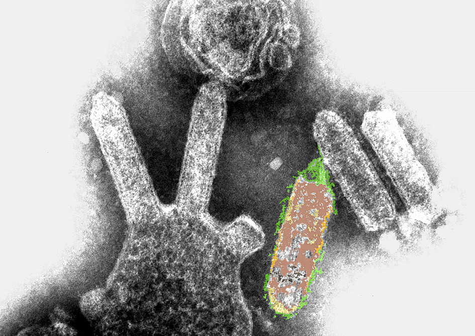 In June 1996, a new virus was discovered in Australia that later killed two humans. The virus was identified as a member of the lyssavirus group, and a close relative to classical rabies found overseas. This image is a coloured transmission electron micrograph of Australian bat lyssavirus. The finger-like projections are the virus, and it is shown budding off from a cell. Image produced by Electron Microscopy Unit, Australian Animal Health Laboratory.